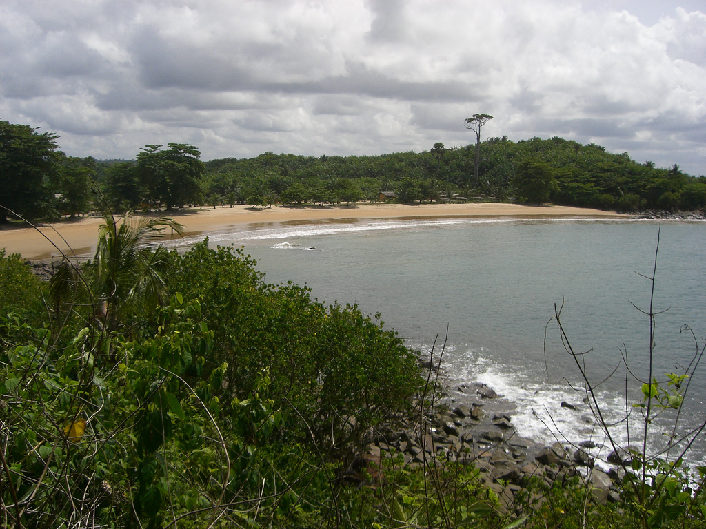 Ezile Bay Beach in Akwidaa, Western Region, Ghana, April 2008.